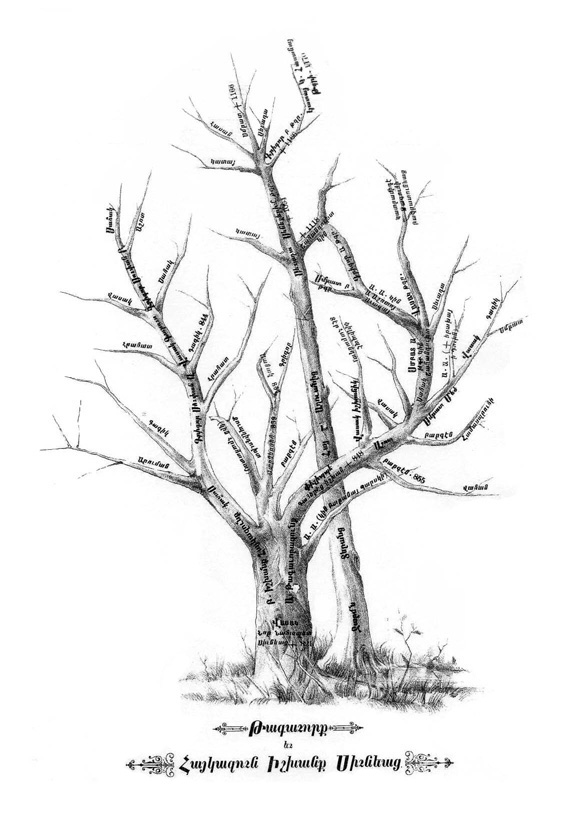 Royal House of Syunik: the Syunid and Aranshahik lines.